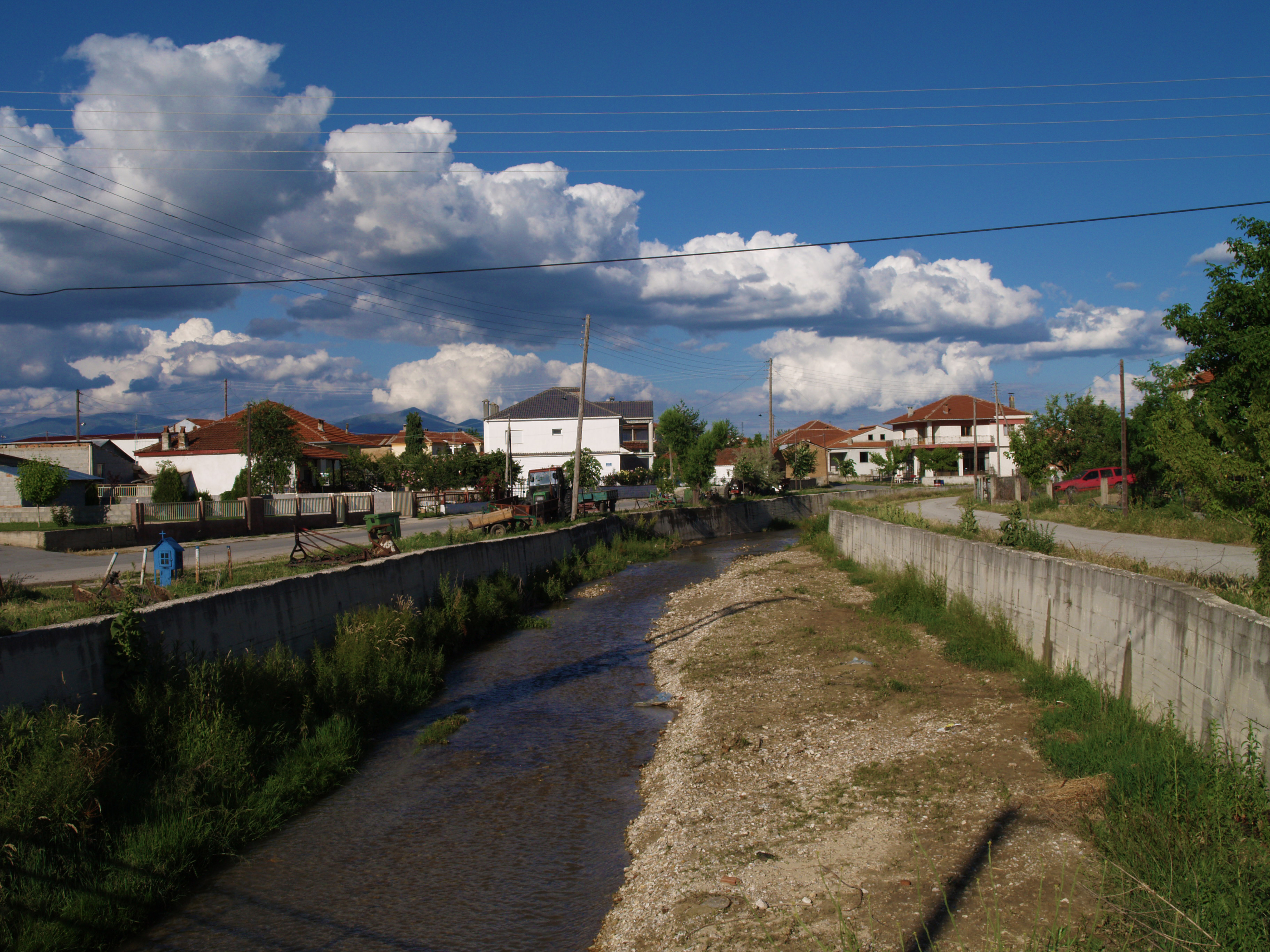 River of village Pesotchnitsa, today Amohori, Greece, called Mala reka (Small river).